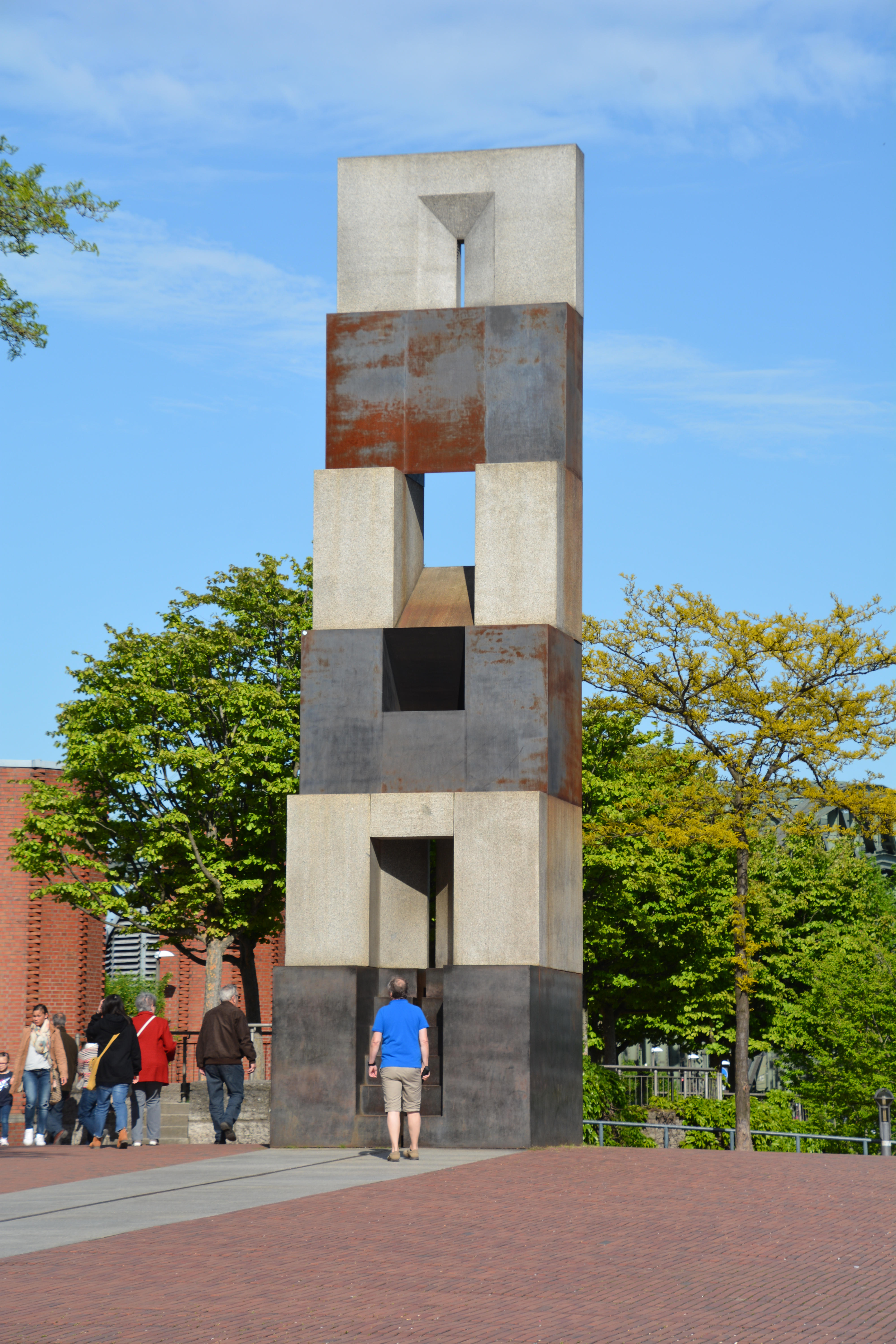 Heinrich-Böll-Platz, Köln. Sculpture Ma'alot